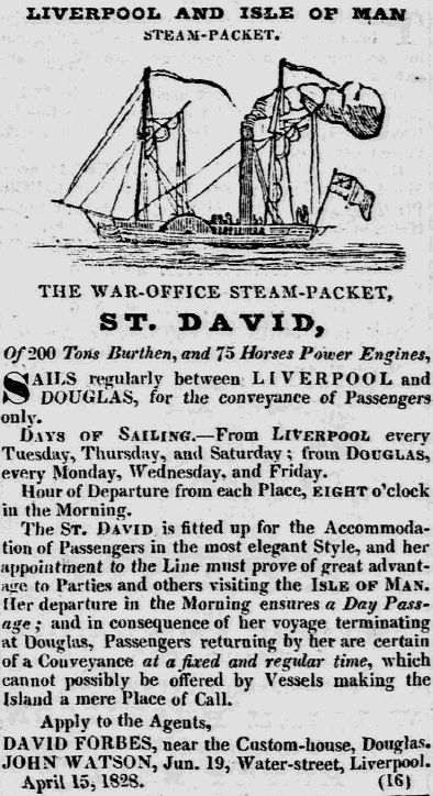 Advertisement for passenge between Liverpool and Douglas onboard the St David